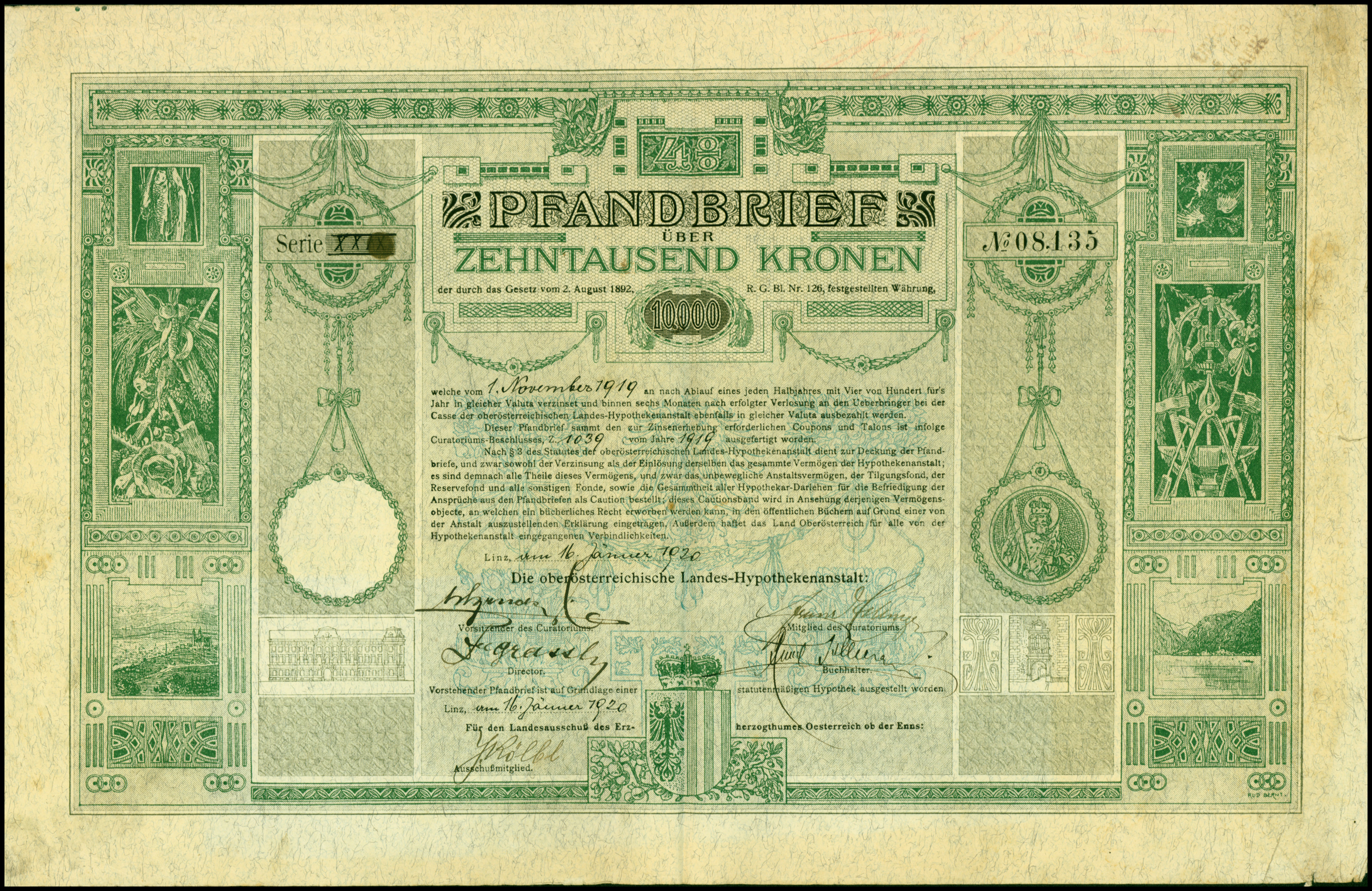 Bond of the Oberösterreichischen Landes-Hypothekenanstalt, issued 16. January 1920